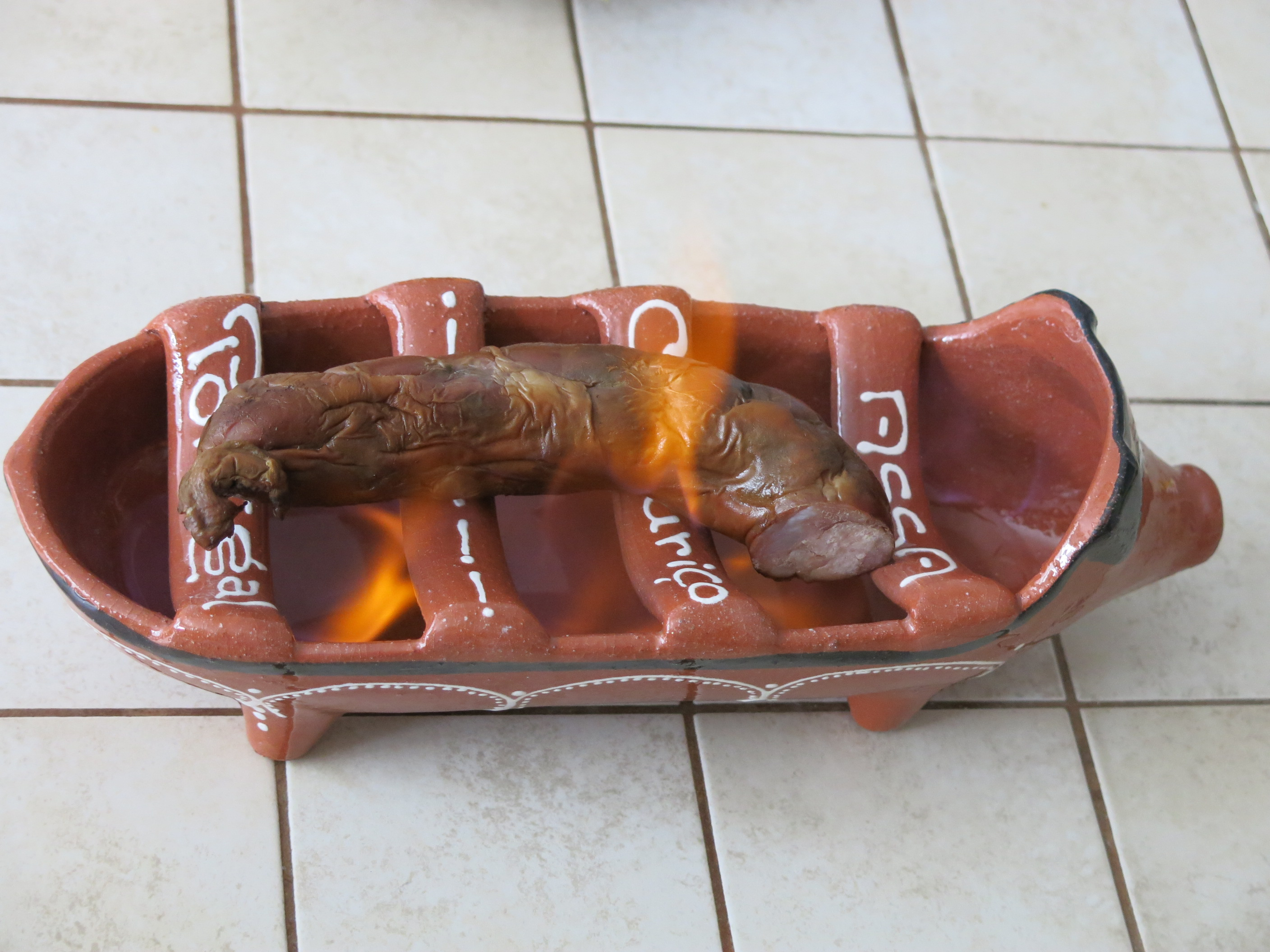 Assa chorizo (Chorizo Grill Dish) : chorizo cooked on a small clay grill.